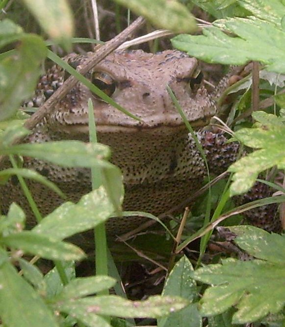 Adult Bufo gargarizans, the Asiatic toad, in grass on hillside in Miryang, South Korea. - Google Maps - Google Earth